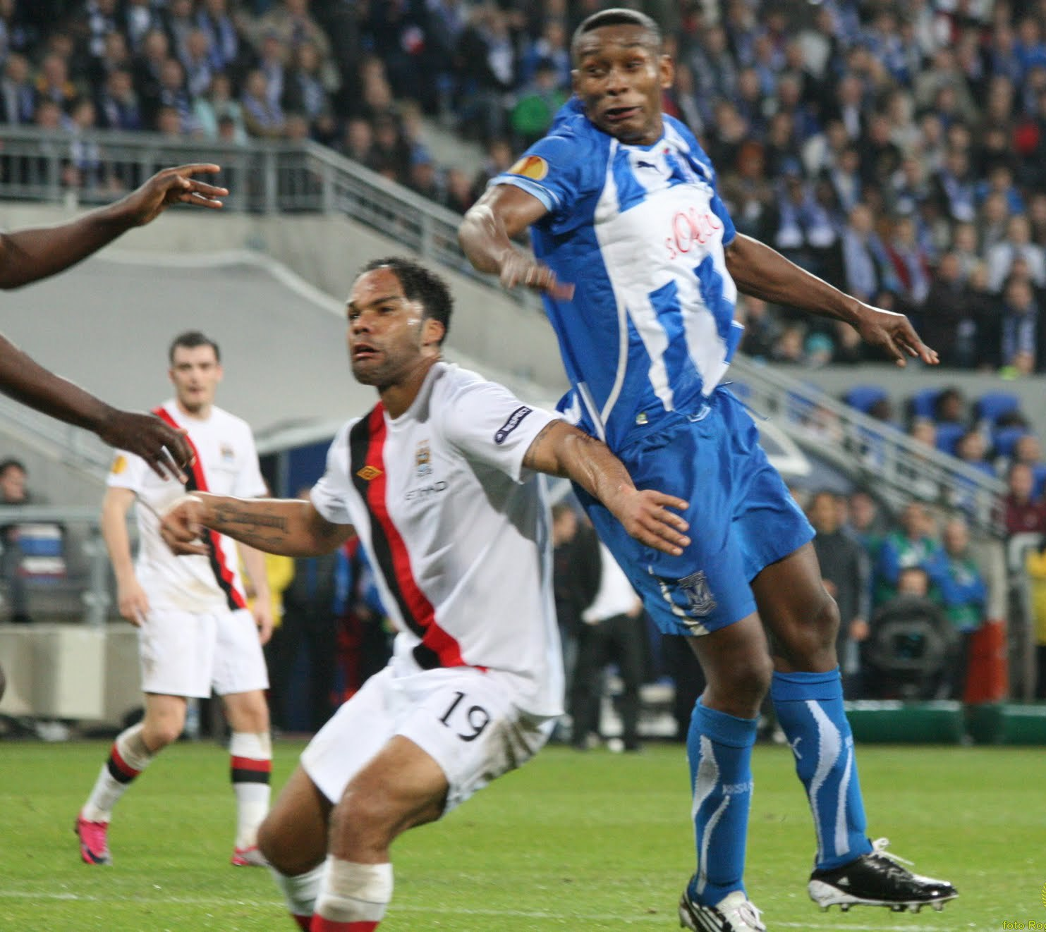 Joleon Lescott and lech poznan player